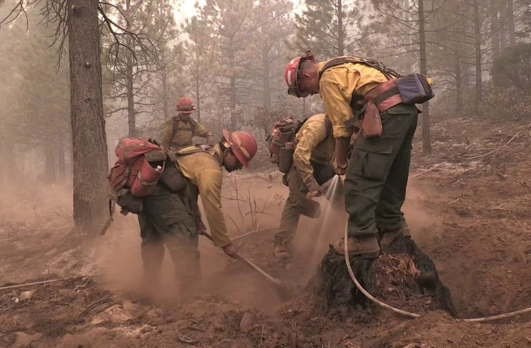 Mop-up operation during 2017 Milli Fire near Sisters, Oregon